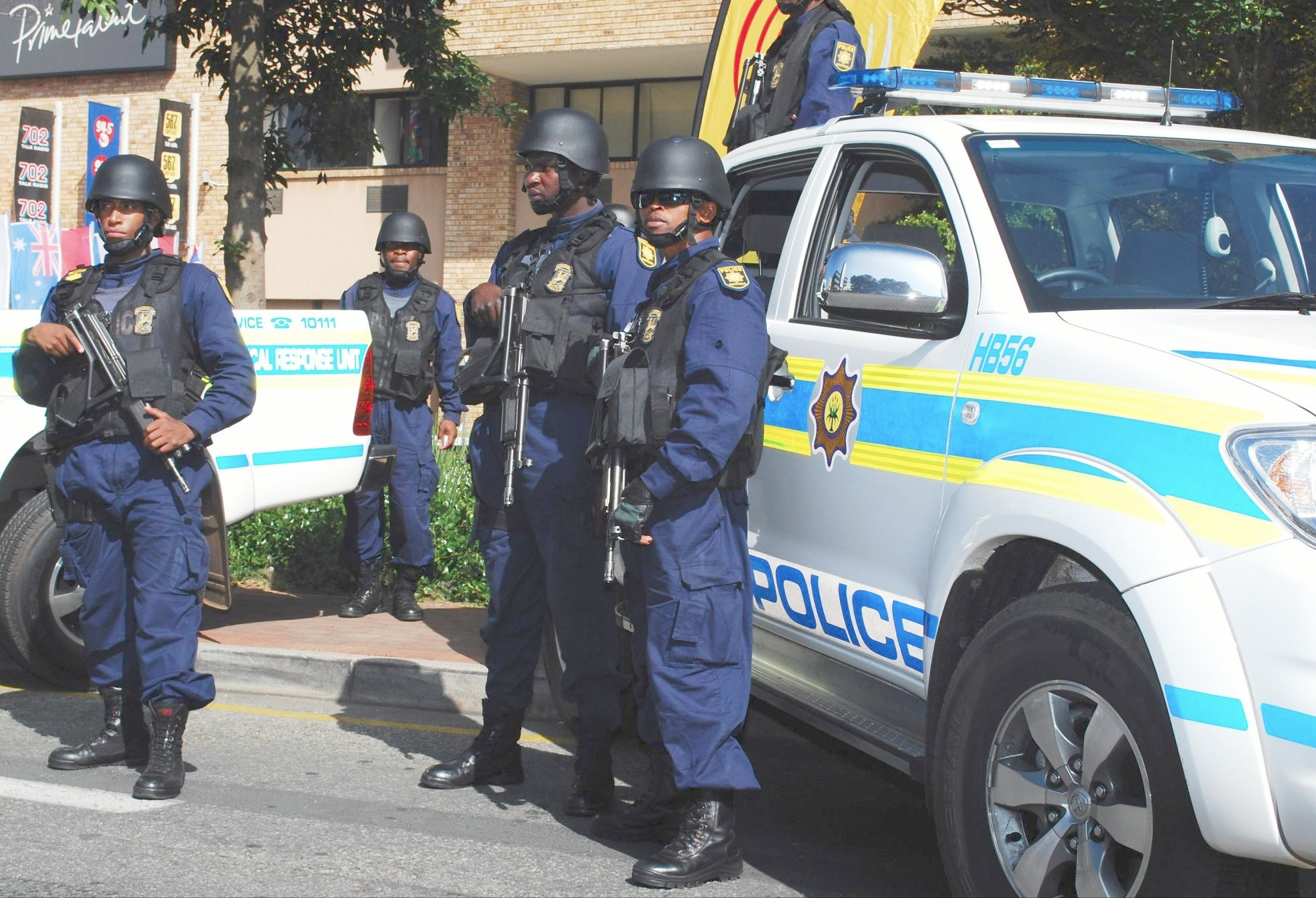 On 17 May 2010 the SAPS demonstrated along with Emergency Services how efficient they will be during the 2010 World Cup. Thousands of spectators joined the parade through the streets of Sandton.